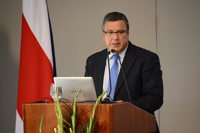 Carlos Araya Rector UCR